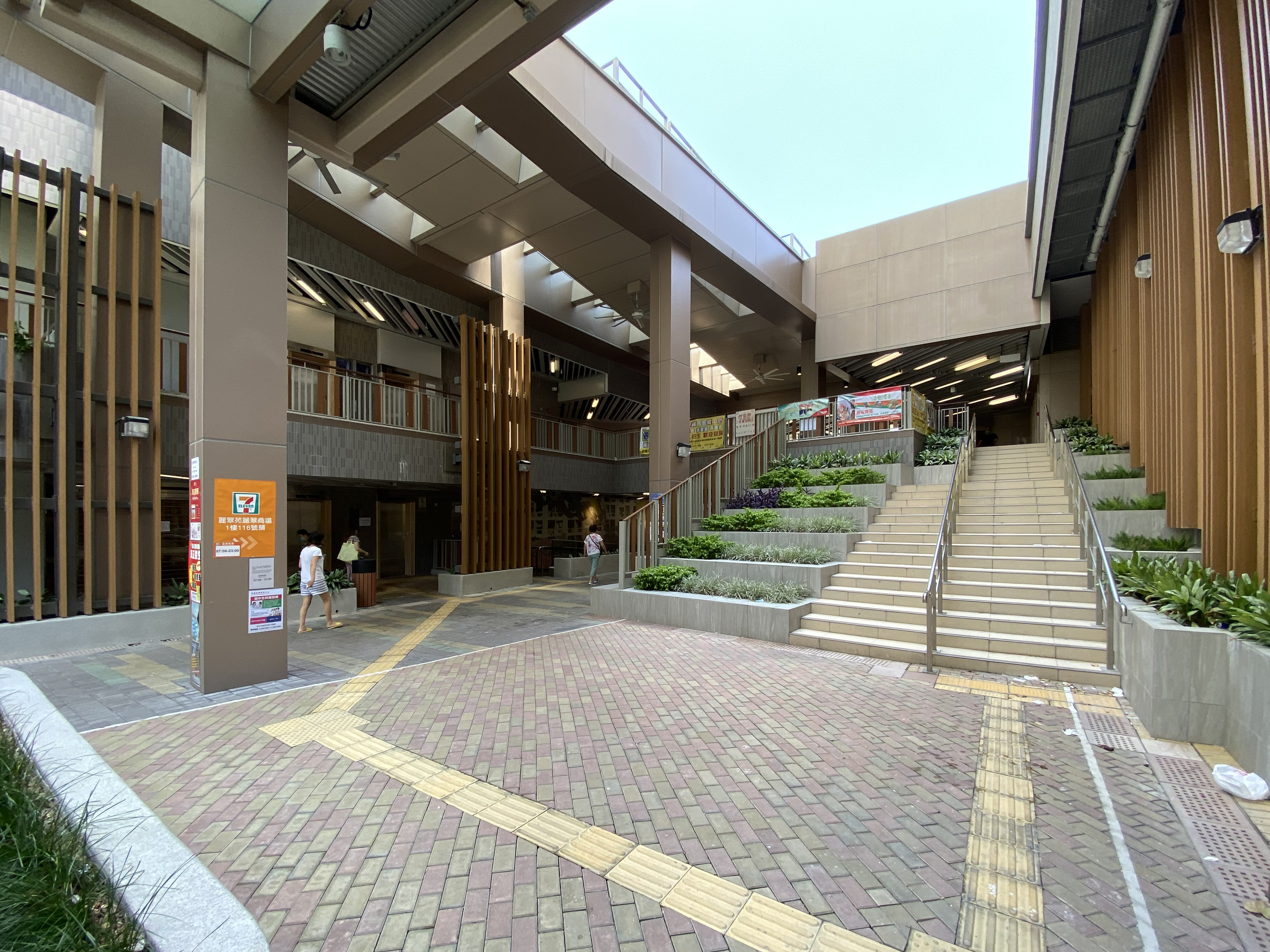 Lai Tsui Shopping Centre Seating steps